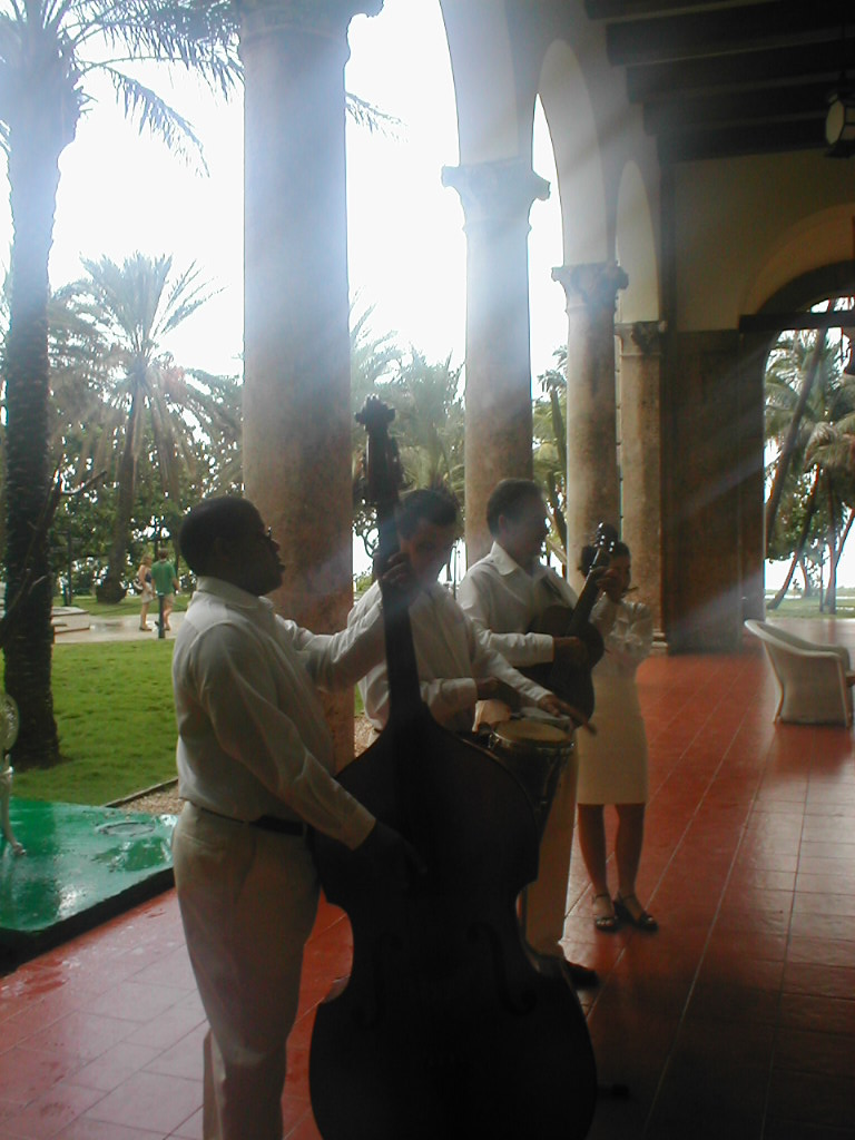 Musicians at the Hotel Nacional de Cuba, Havana, Cuba. October 2002.